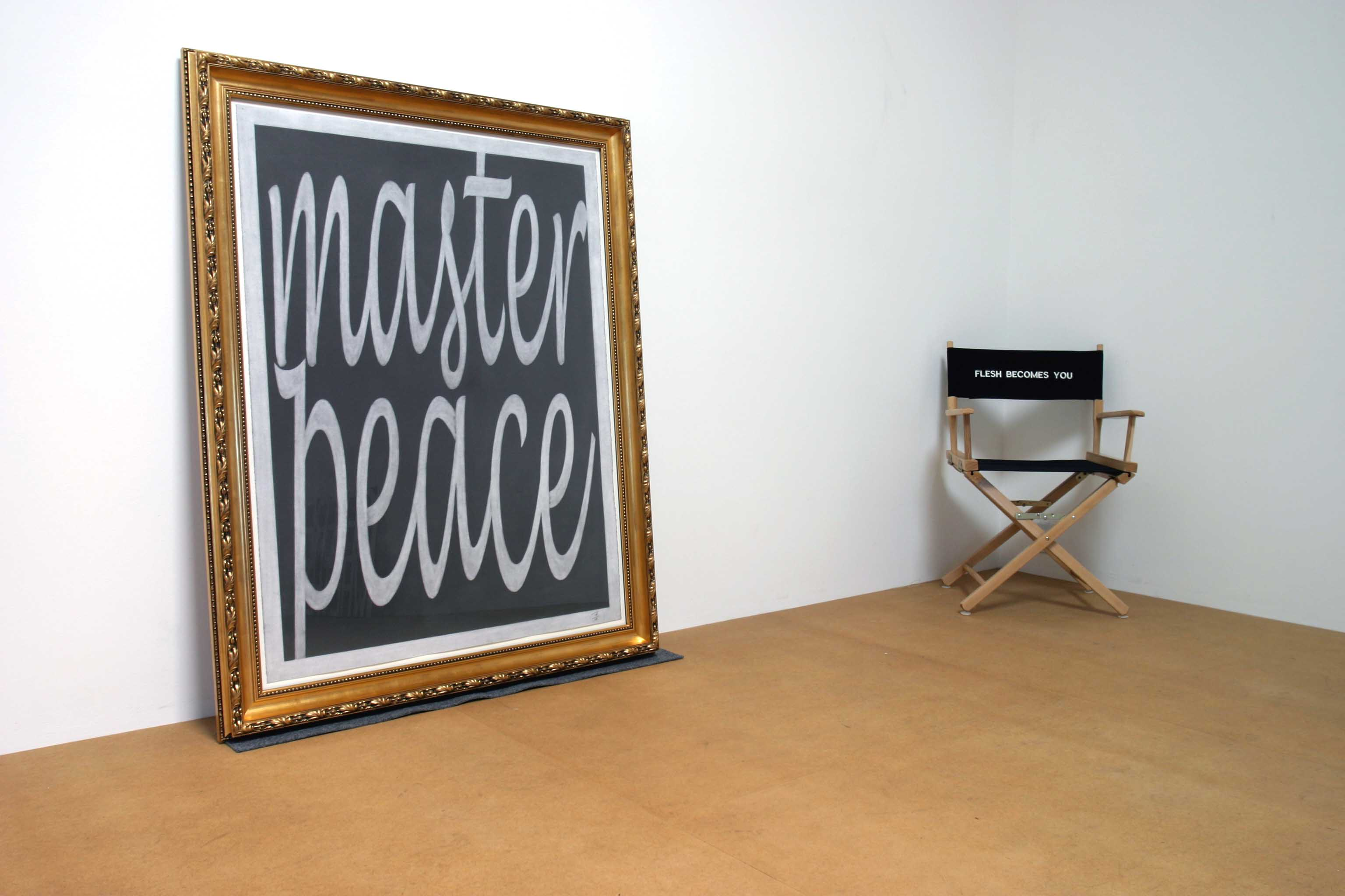 I received written permission from the artist to use this image of his work, which was taken in 2009 in his studio.